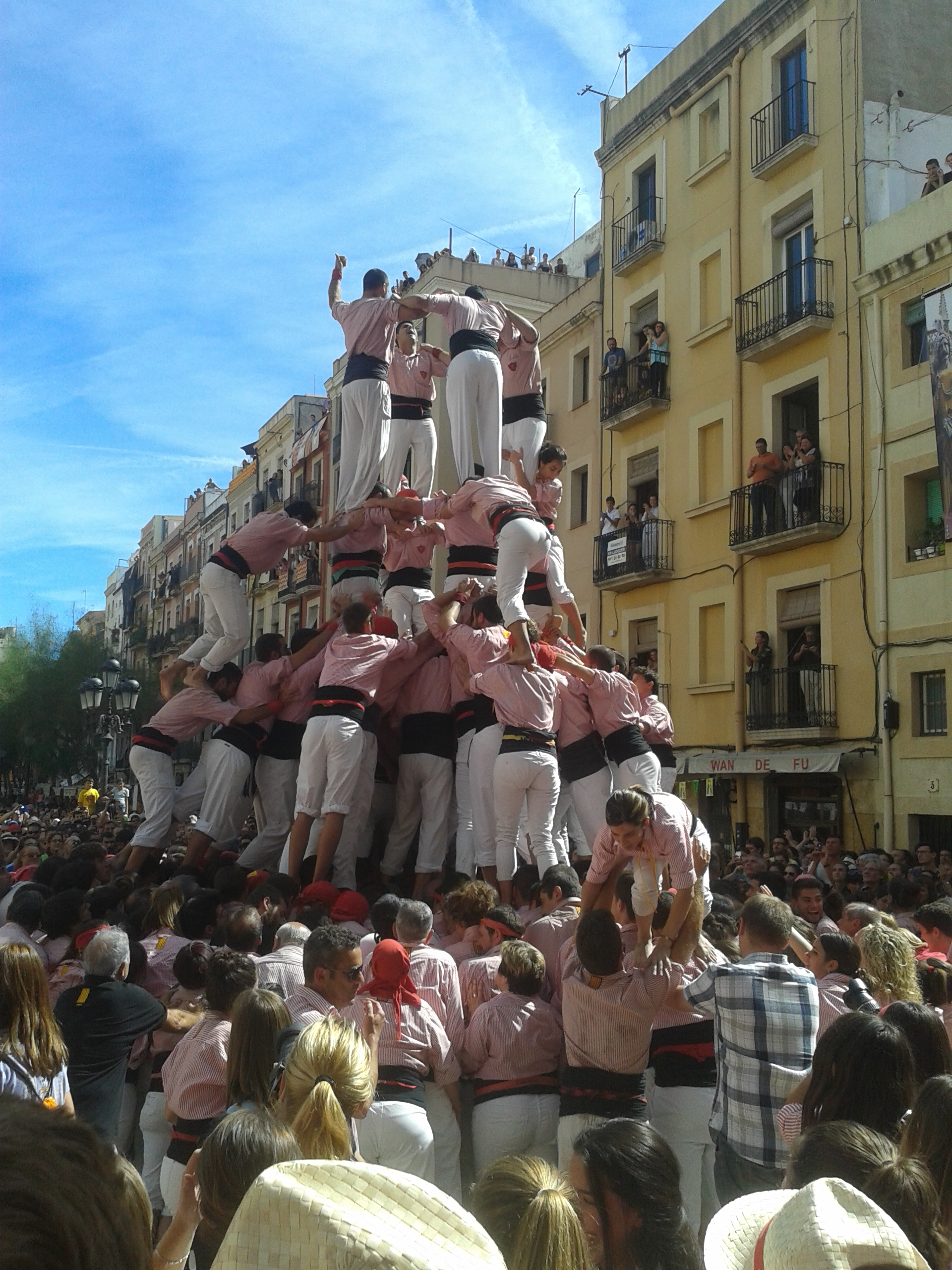 Festival of Santa Tecla in Tarragona, Catalonia, Spain. Human towers.